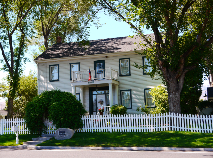 The Damonte Ranch House listed on the National Resister.[1]